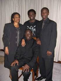 The family of Dr. Wilfred Lai